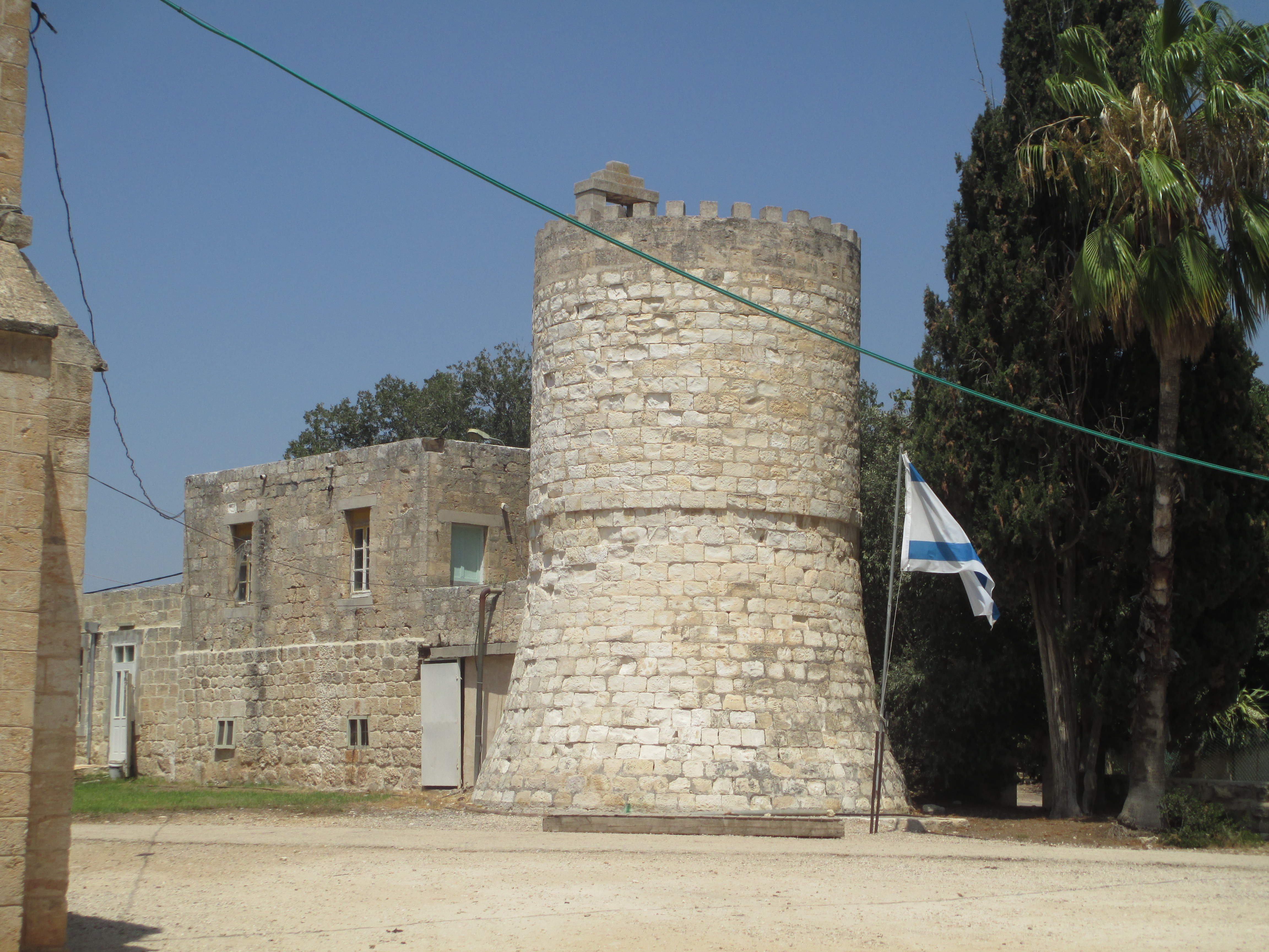 Water tower in Bethlehem of Galilee